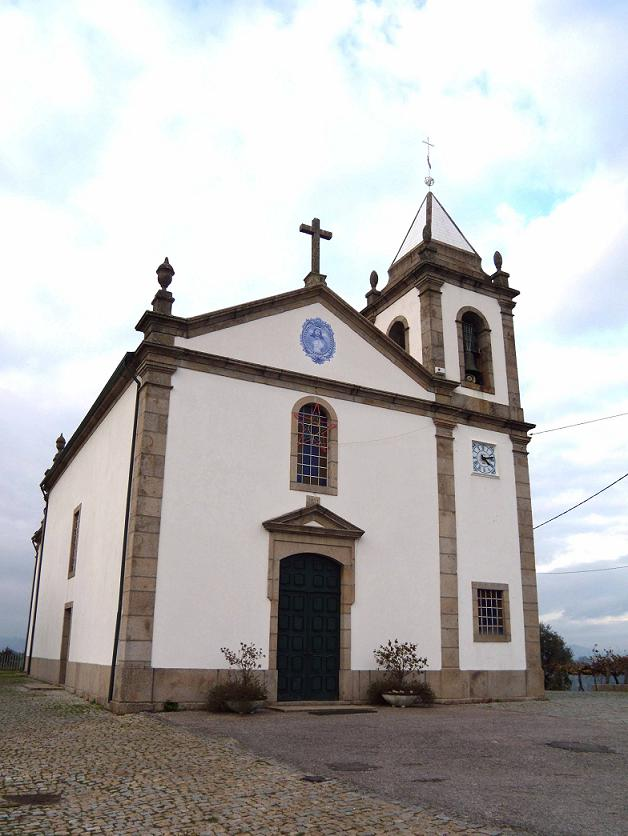 Church of Galegos, Penafiel - Portugal